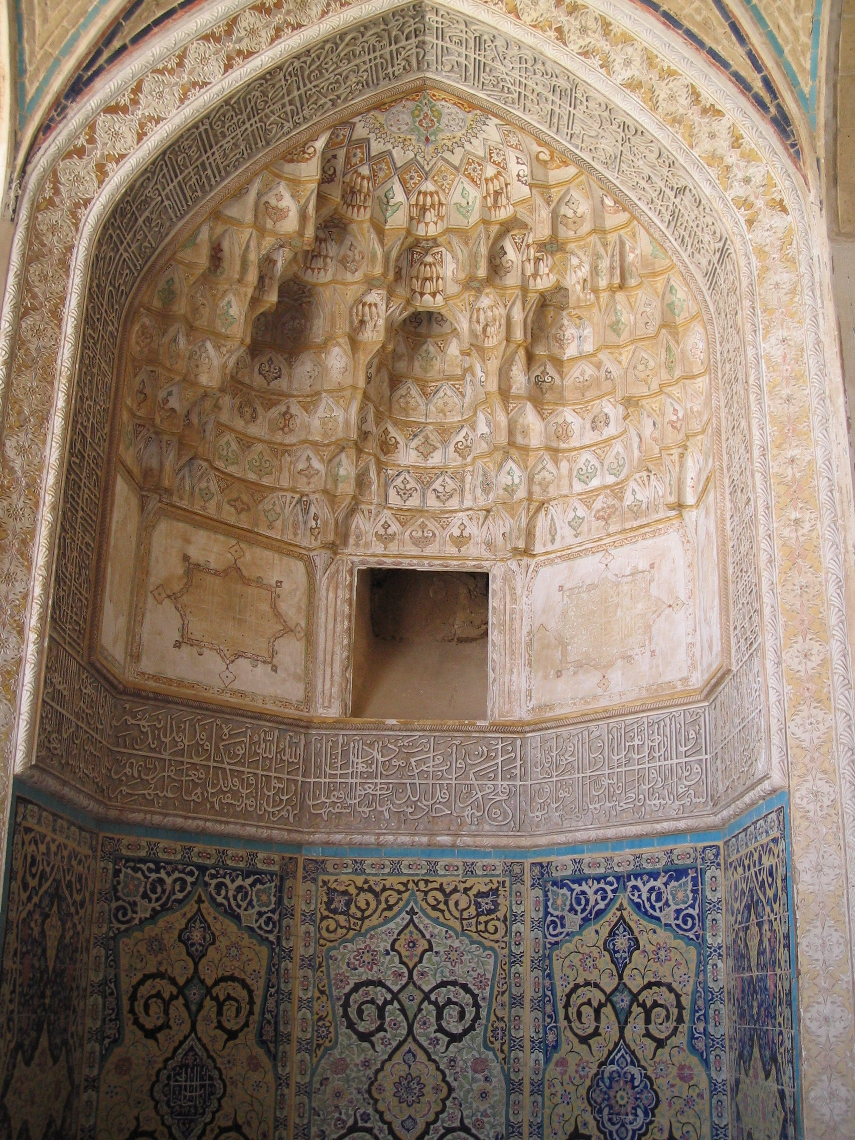 Mehrab inside the madreseh Agha Bozorg in Kashan, Iran.